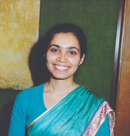 Girl in India